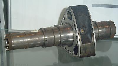 Wankel Rotary DKM54 Runner